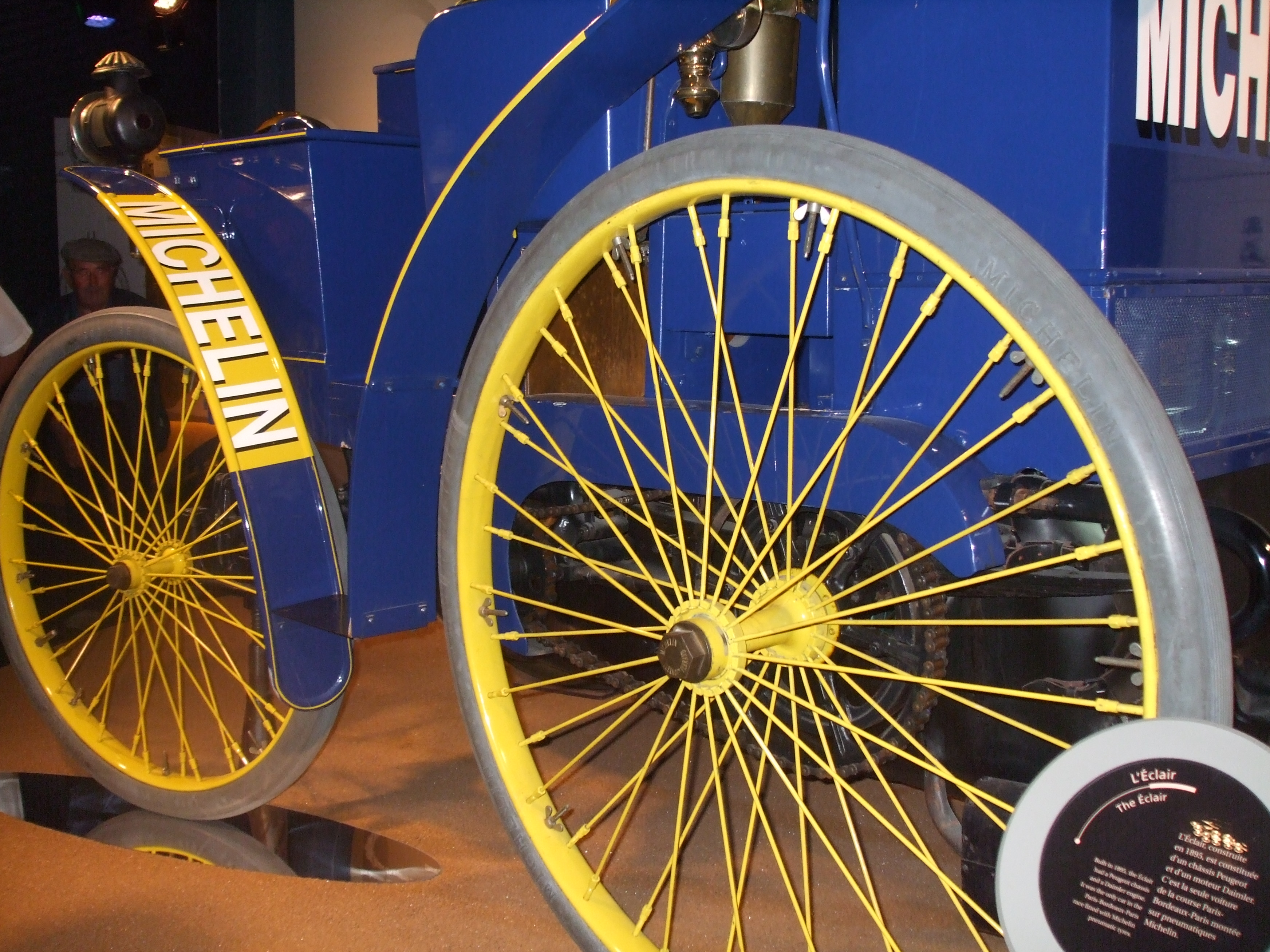 The Michelin Adventure in Clermont-Ferrand describes the rôle of Michelin in the development of the tyre. A Peugeot chassis, a Daimler Engine, the only car in the 1895 Paris-Bordeaux rally fitted with pneumatic tyres- Michelin tyres